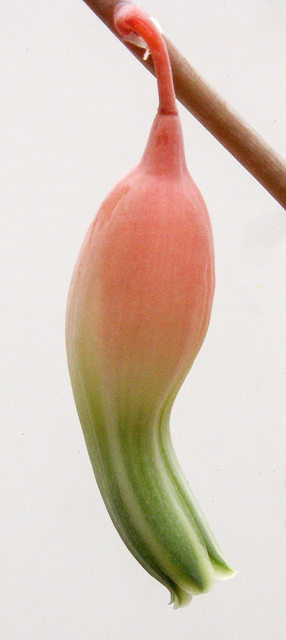 Single flower of a Gasteria plant in cultivation